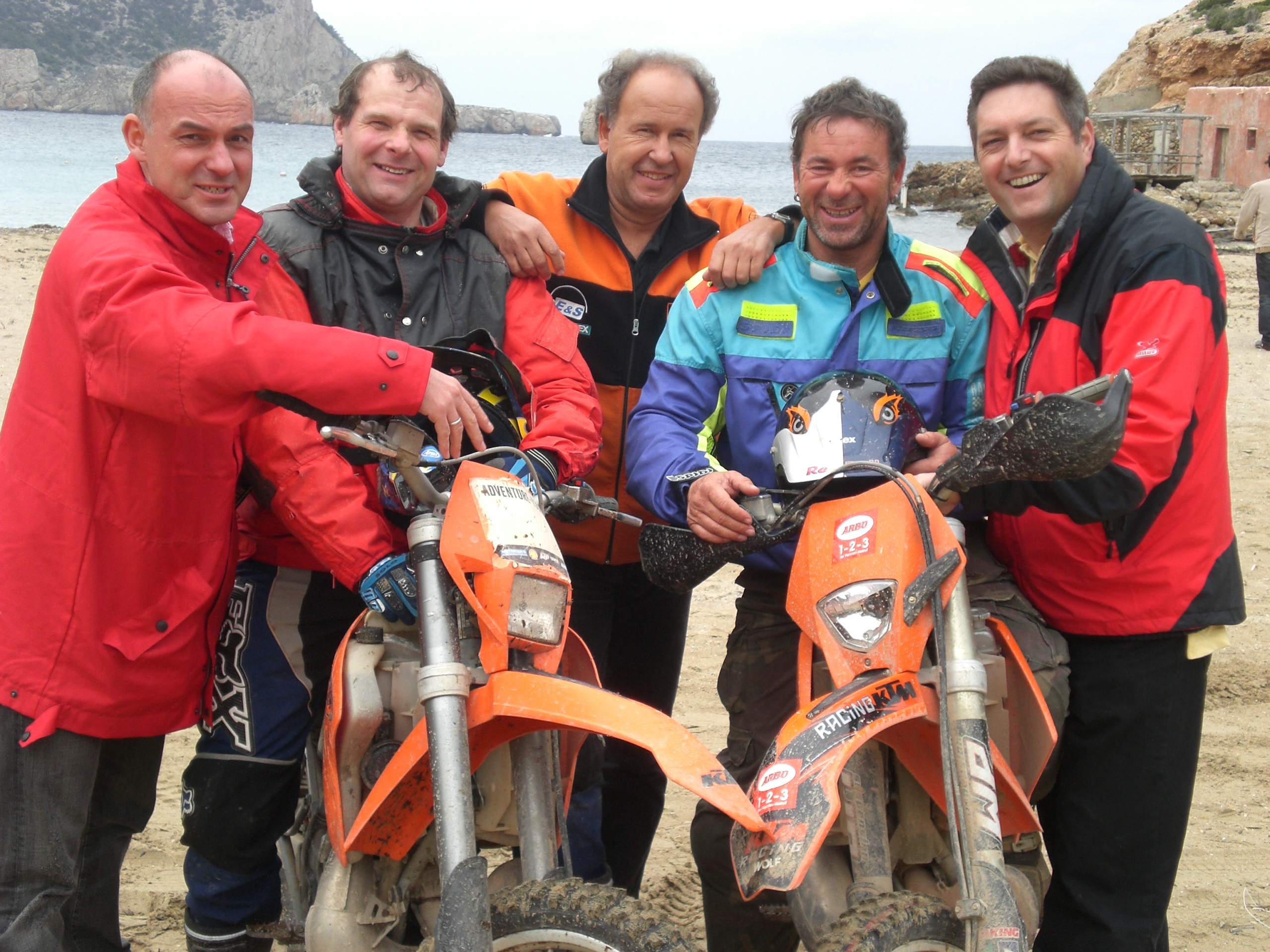 Team Helly Frauwallner bei der Tour Nordlicht